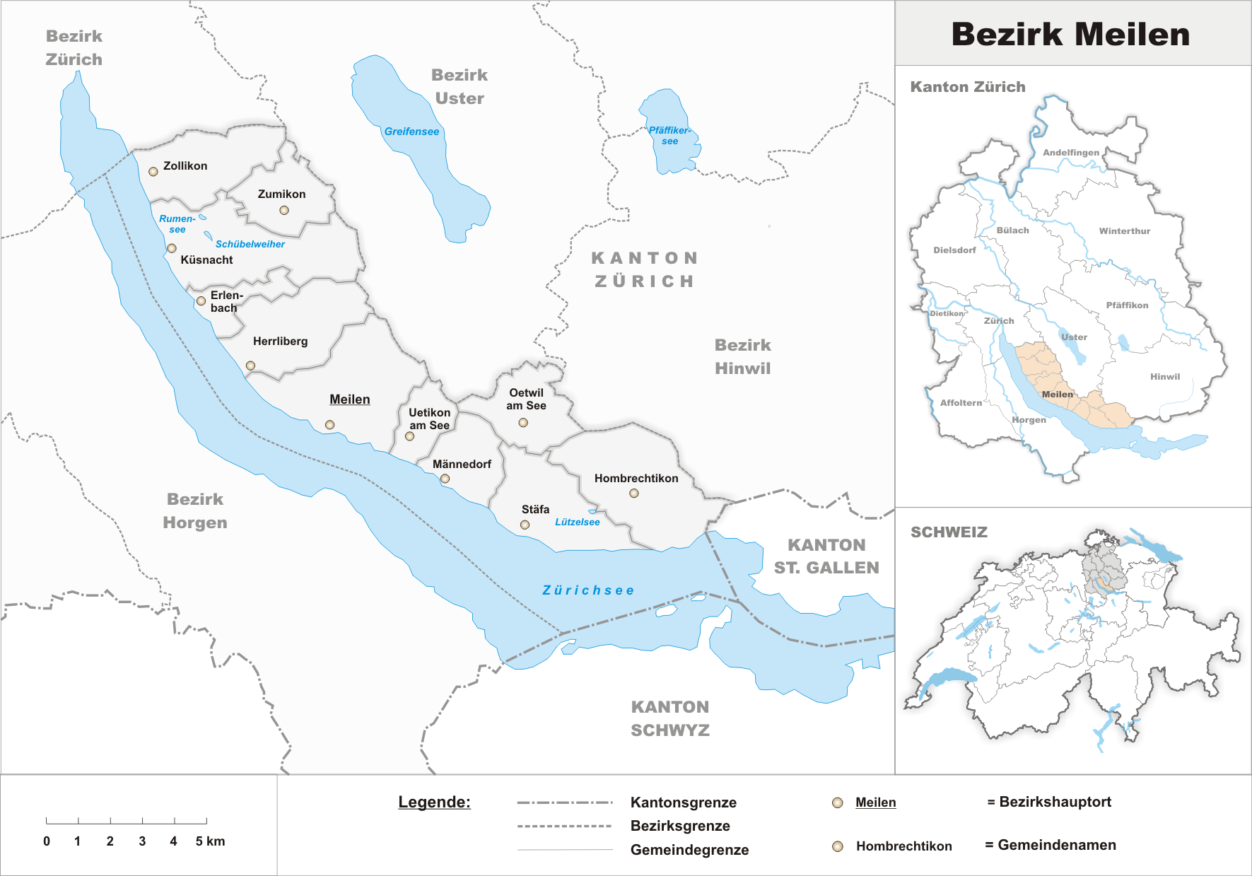 Municipalities in the district of Meilen